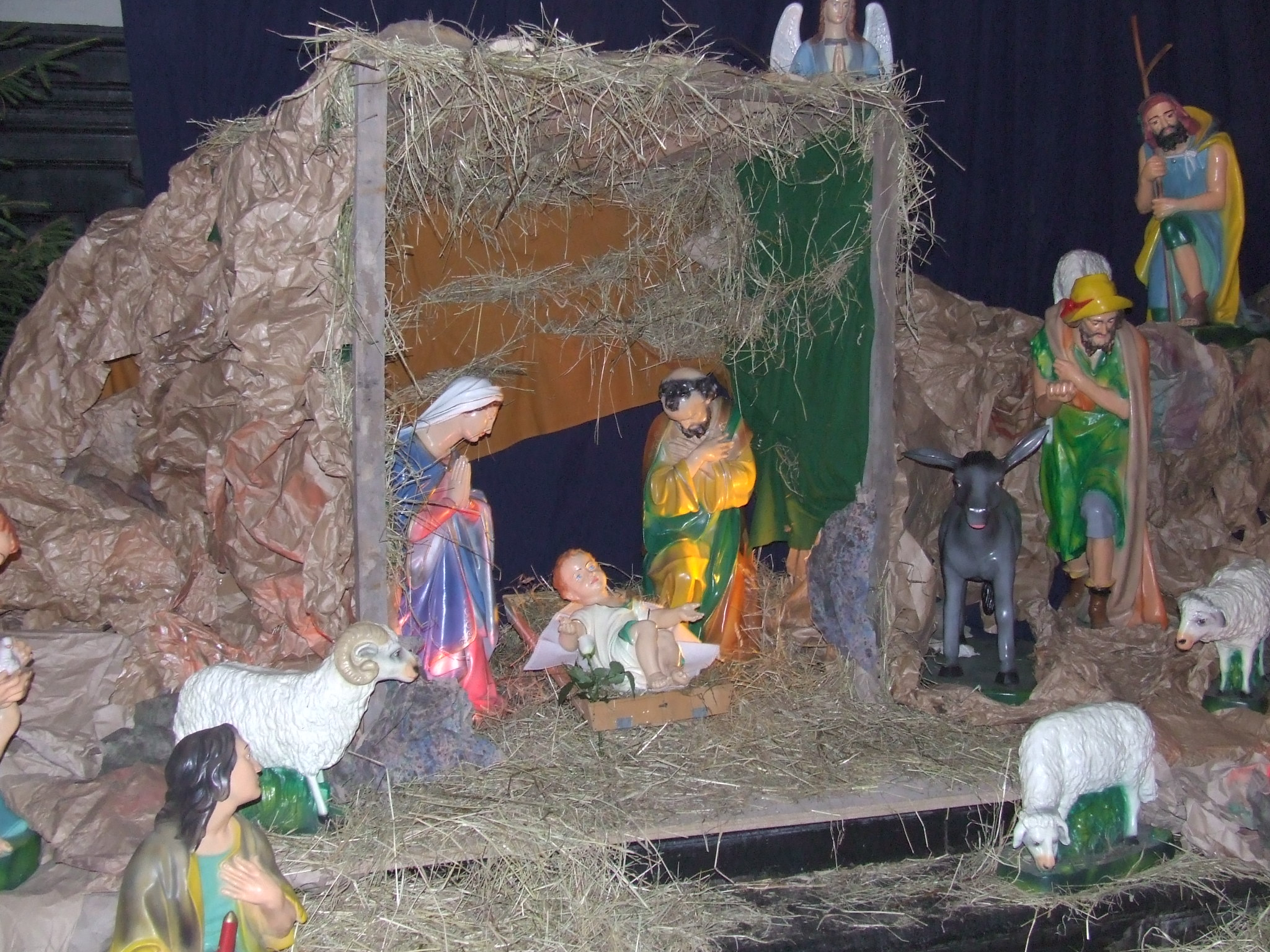 Crib in franciscan church in Cracow (Poland)- 2006